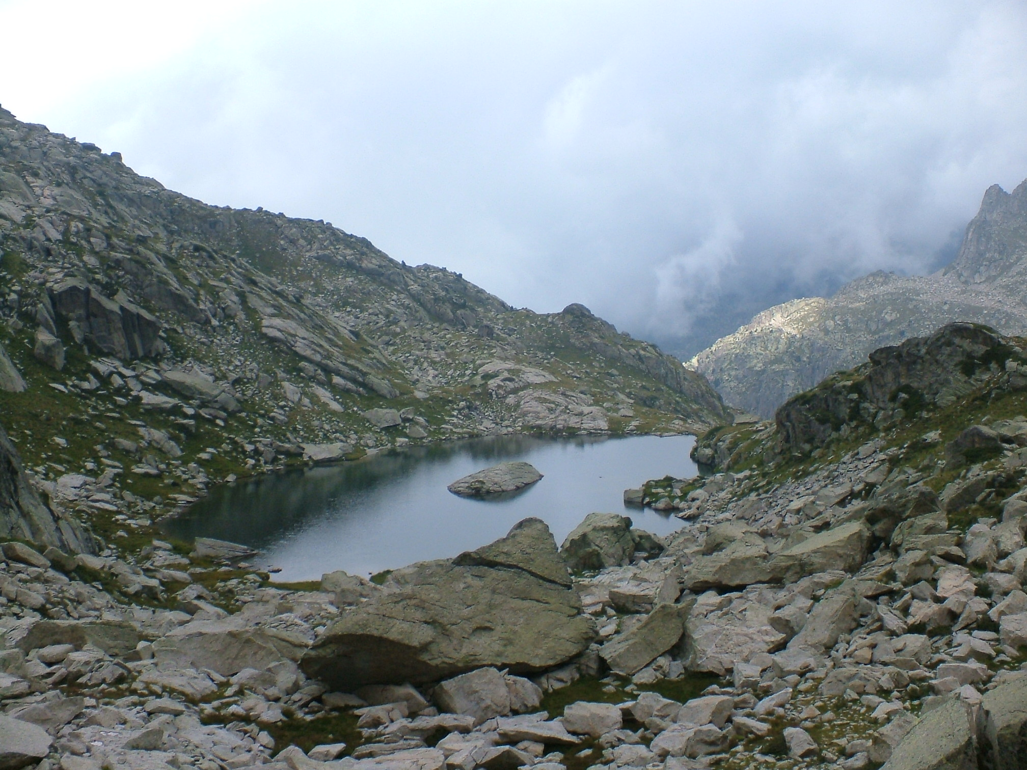 Estany de la Roca — lake of Vall de Colieto in the Pyrenees. La Vall de Boí, Alta Ribagorça, Catalonia.